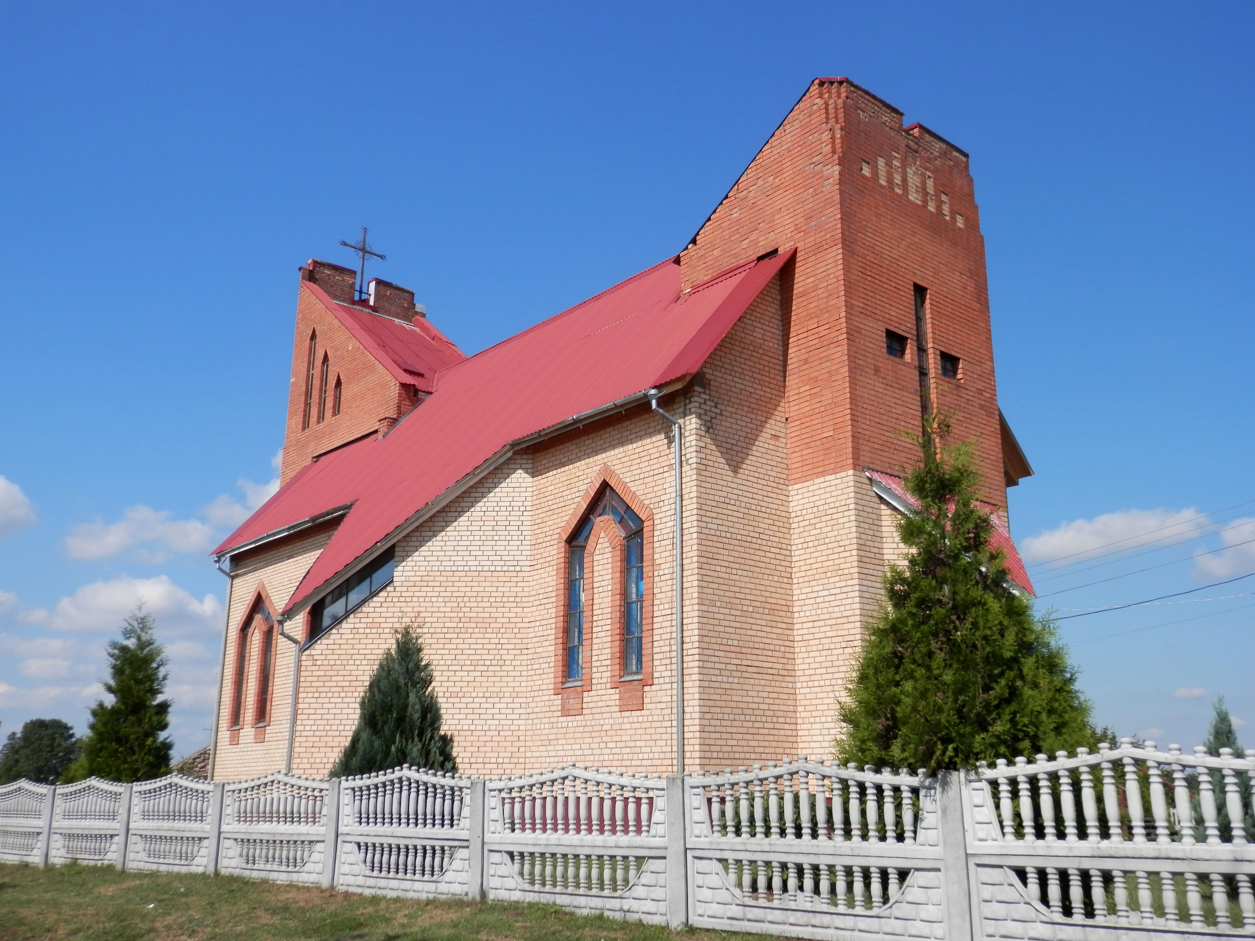 Wolma (Belarus), St. John parish church